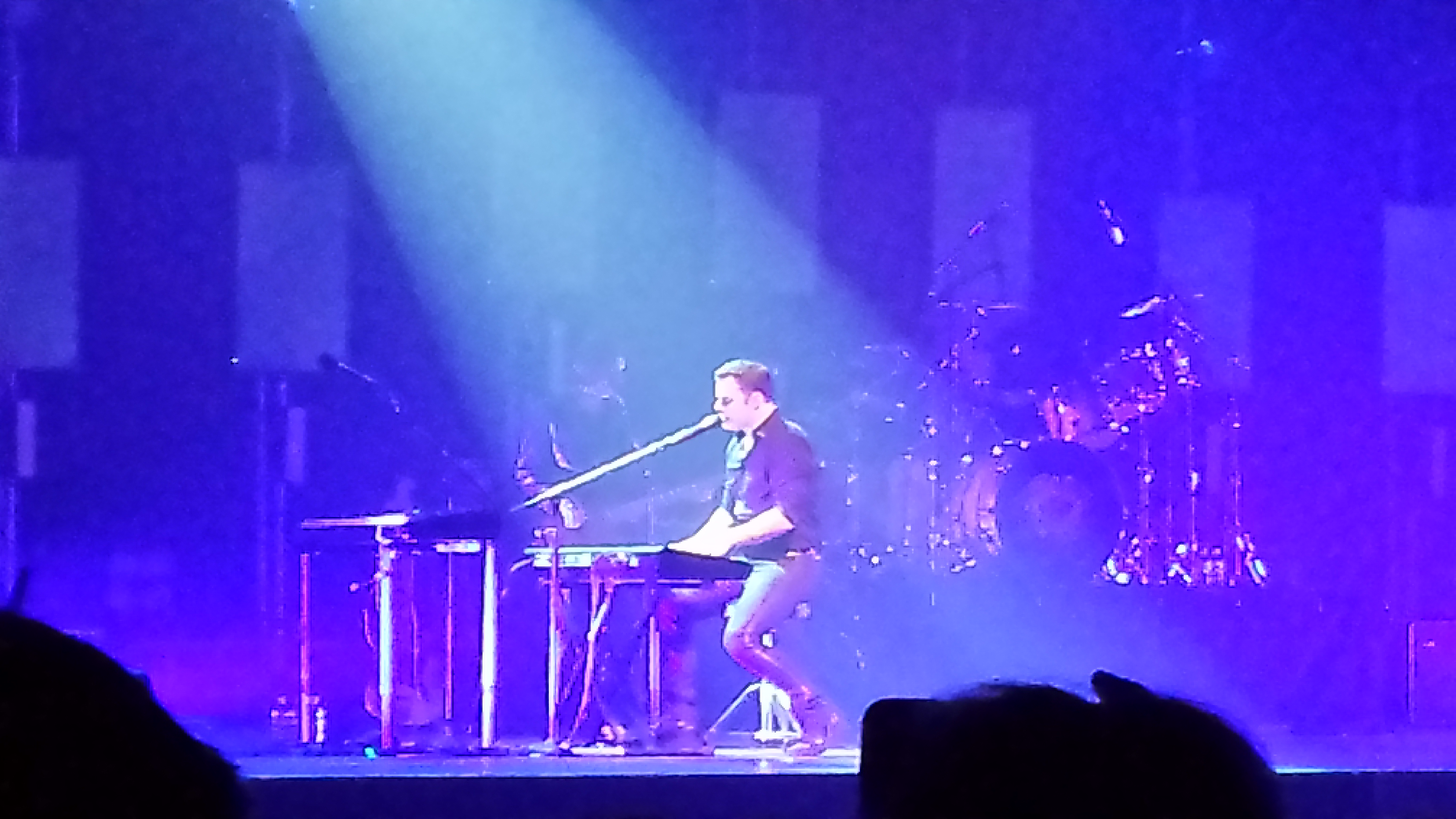 Marc Martel on-stage in may, 22 2014 - Padova Italy